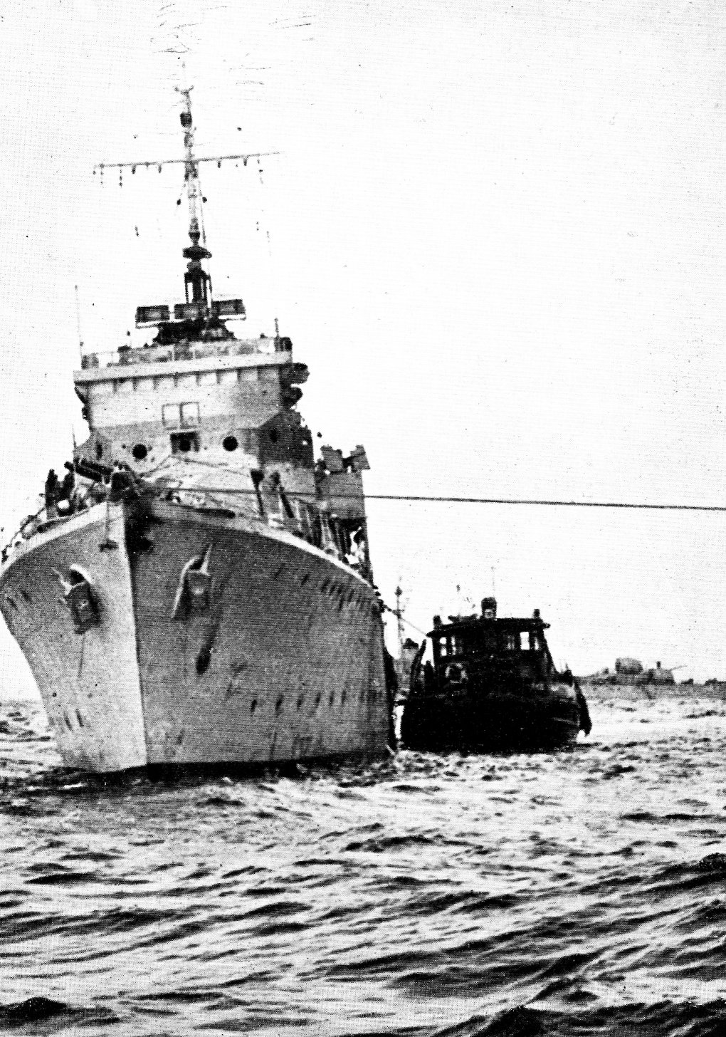 Ibrahim al-Awal, formerly HMS Mendip (L60), captured by Israel from Egypt in 1956. Renamed to Haifa (K-38).